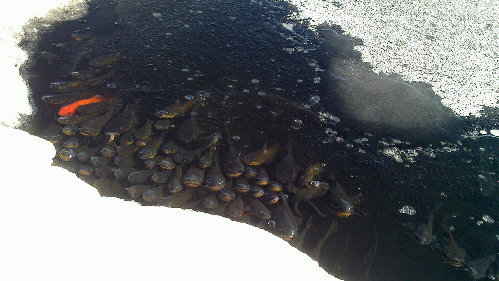 Brown bullheads and a goldfish or carp in Powderhorn Lake, Minneapolis